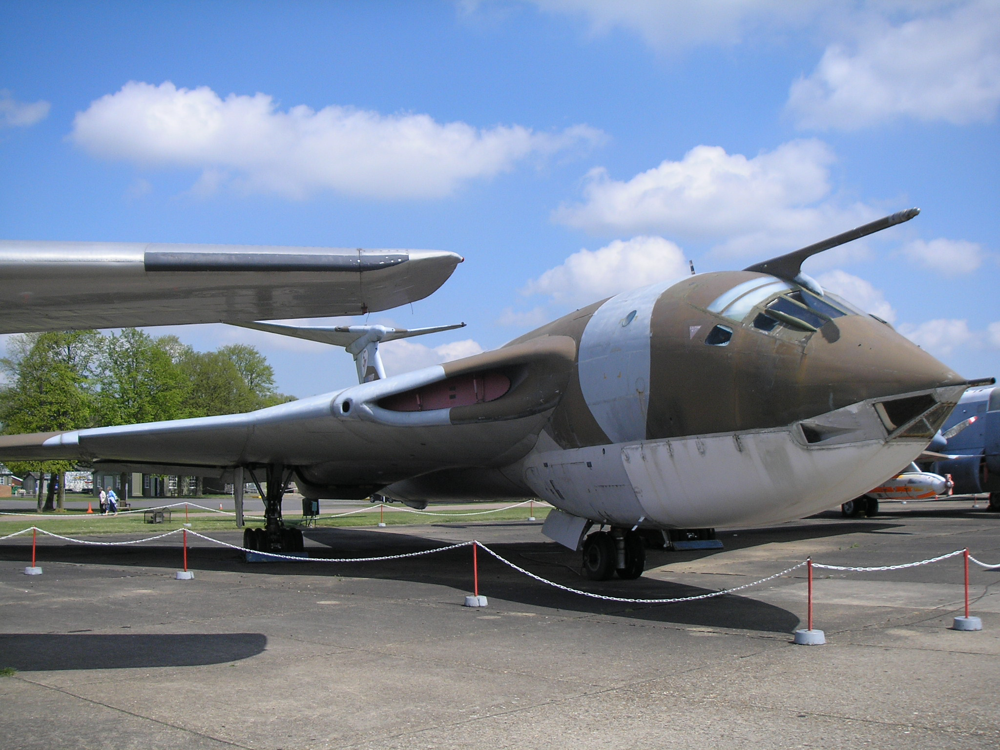 A Handley Page Victor preserved at Imperial War Museum Duxford.